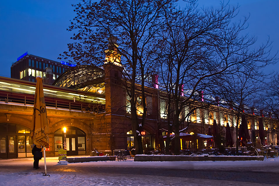 S-Bahn station Hackescher Markt in Spandauer Vorstadt in Berlin Mitte, Germany This is a photograph of an architectural monument. (O3120253-v3)